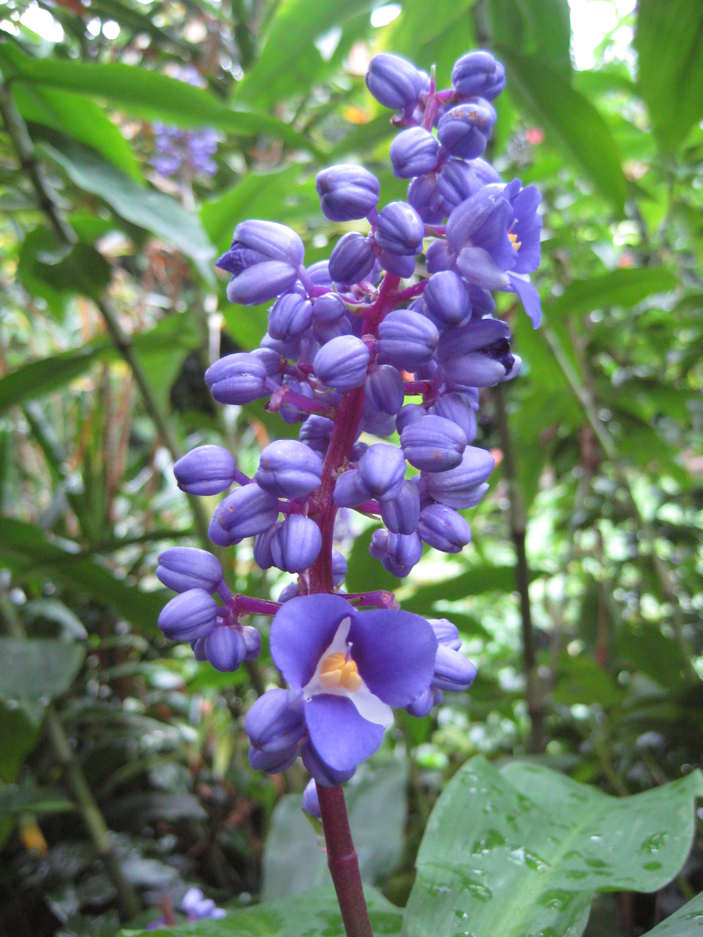 Blue Ginger Royal Botanic Garden Edinburgh: Accession number 1964.4295 A